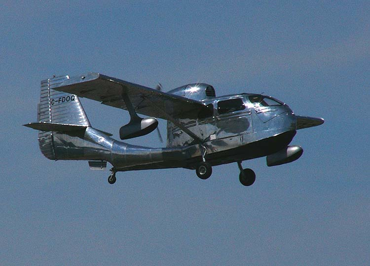 I took this photo at Rockcliffe Airport 26 August 2006